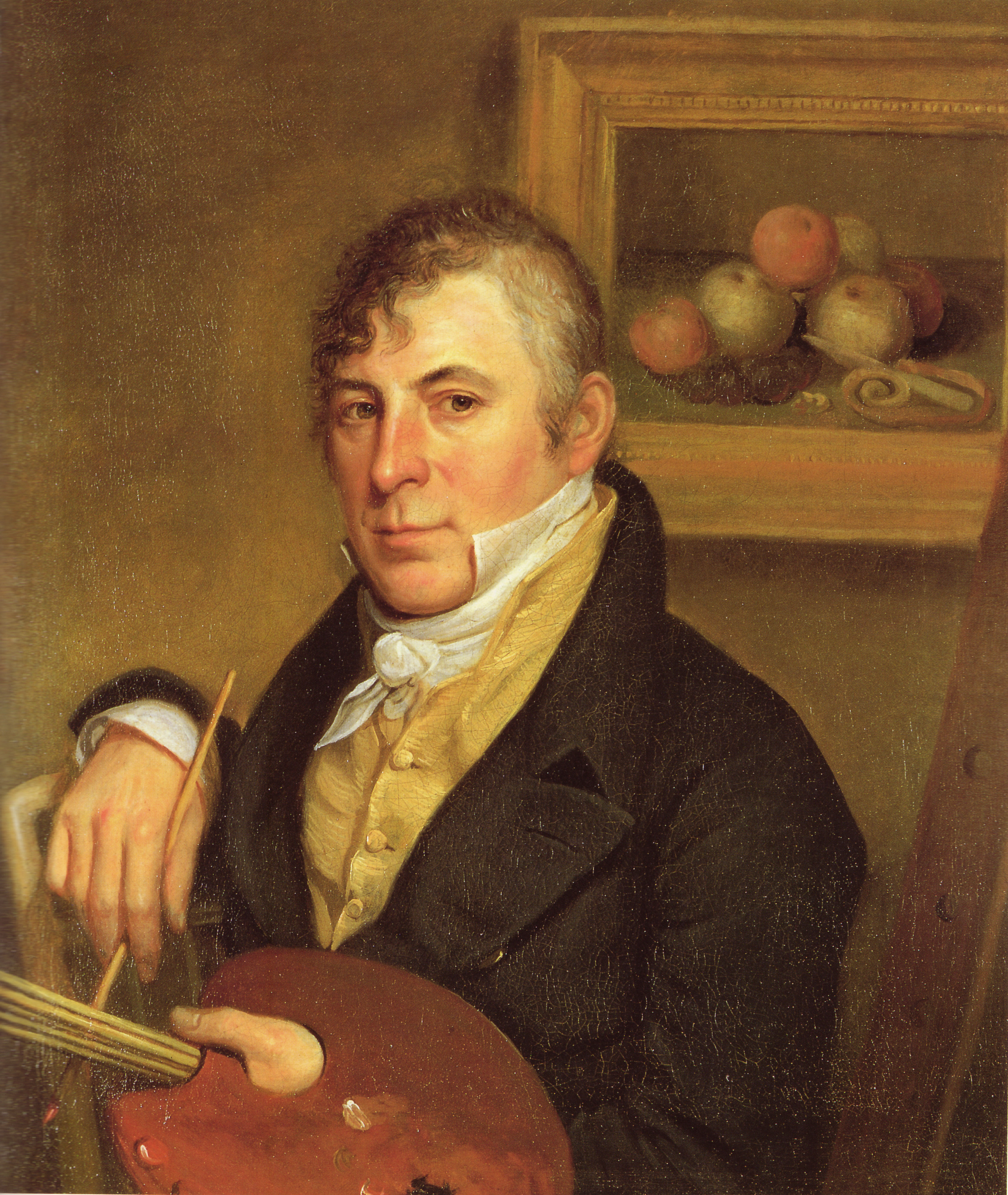 Painting Raphaelle Peale by Charles Willson Peale